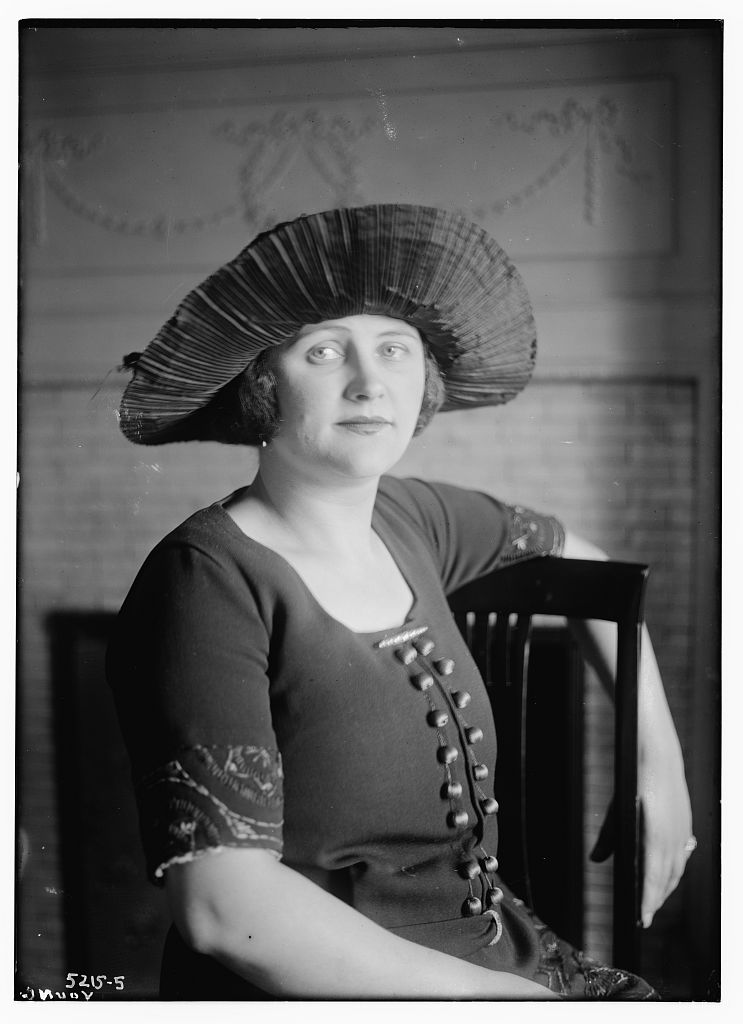 Margaret Young in 1922 facing right